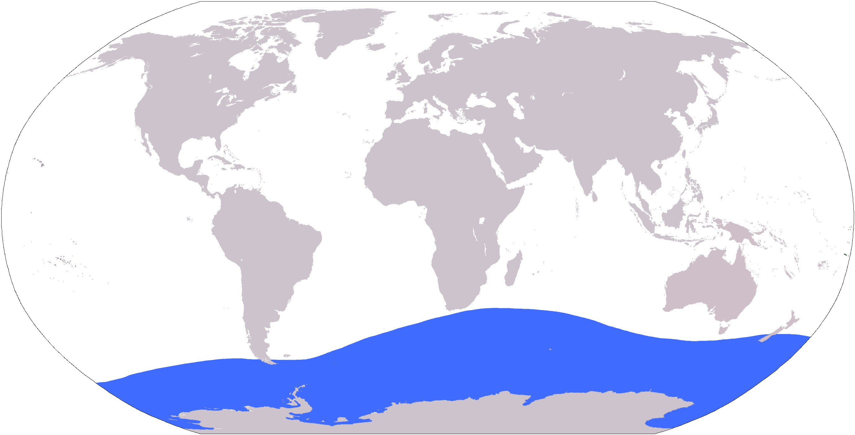 Distribution of Mesonychoteuthis hamiltoni